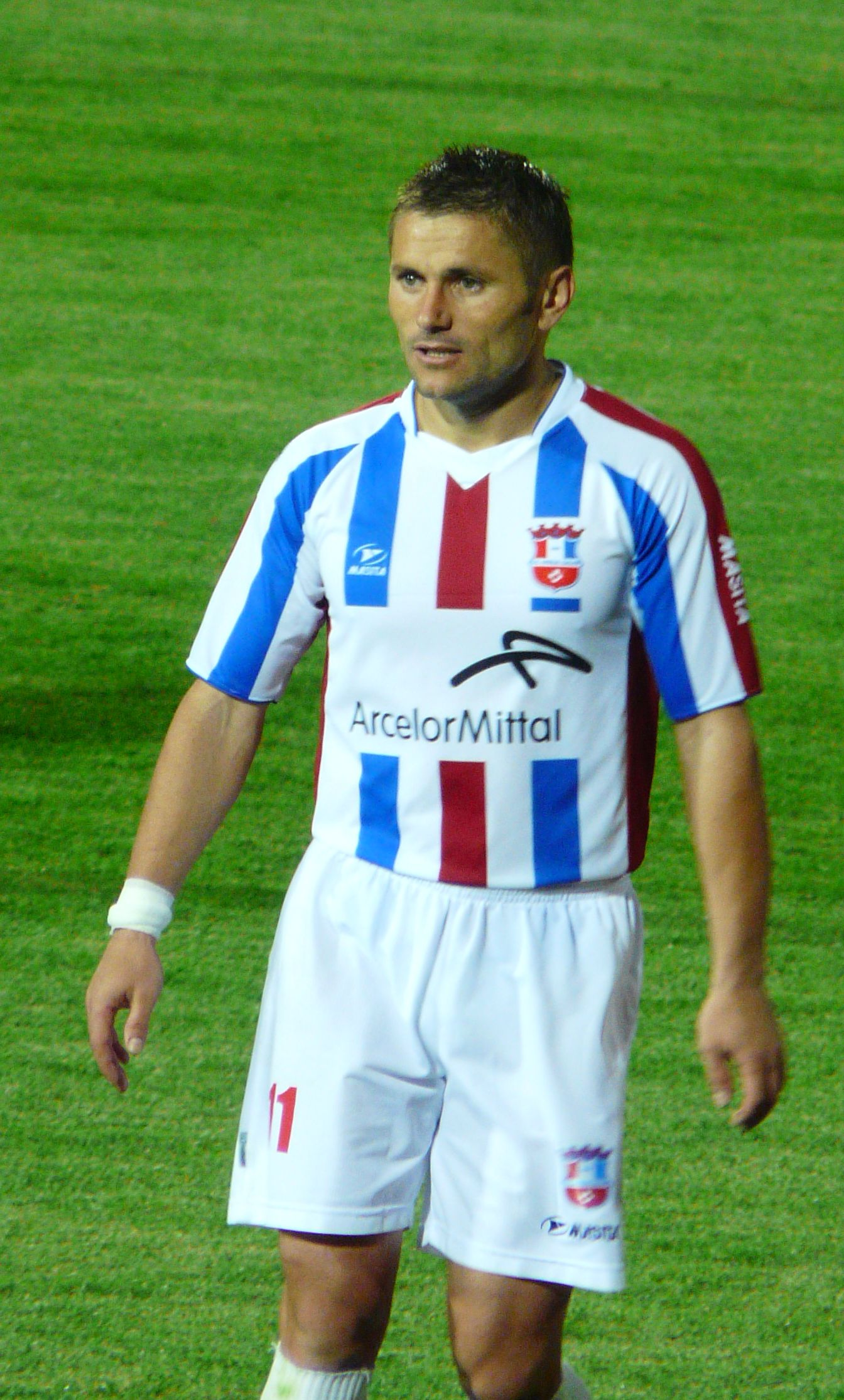 Sorin Frunză in September 2011, during Otelul - Oltchim